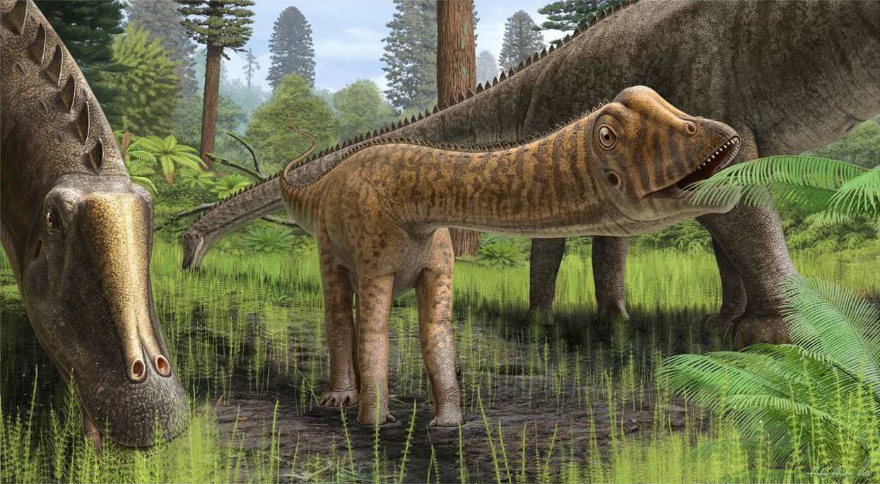 Life reconstruction of CMC VP14128. Note the cranial morphologies interpreted to denote differing feeding strategies: in CMC VP14128 the narrow snout with posteriorly elongated and morphologically varied tooth row for bulk feeding vs. the widened snout with anteriorly restricted peg-shaped teeth for ground-level browsing in adults. Also note the camouflaged ontogenetic color change suggesting young diplodocids may have sought forested refuge.